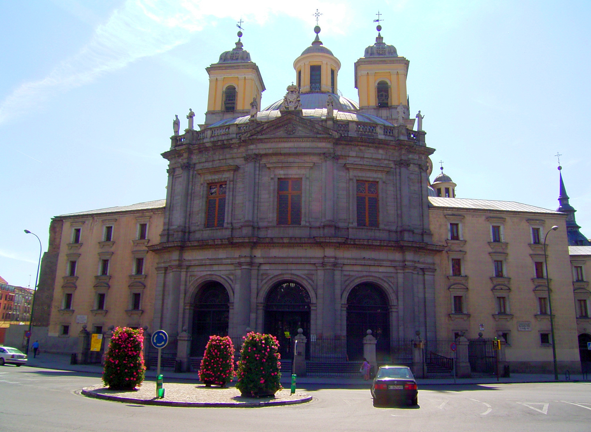 Basílica de San Francisco el Grande ("Basilica of St. Francis of Assisi") in Madrid (Spain). Built between 1761 and 1784. Architect: Francisco Cabezas (1709–1773).